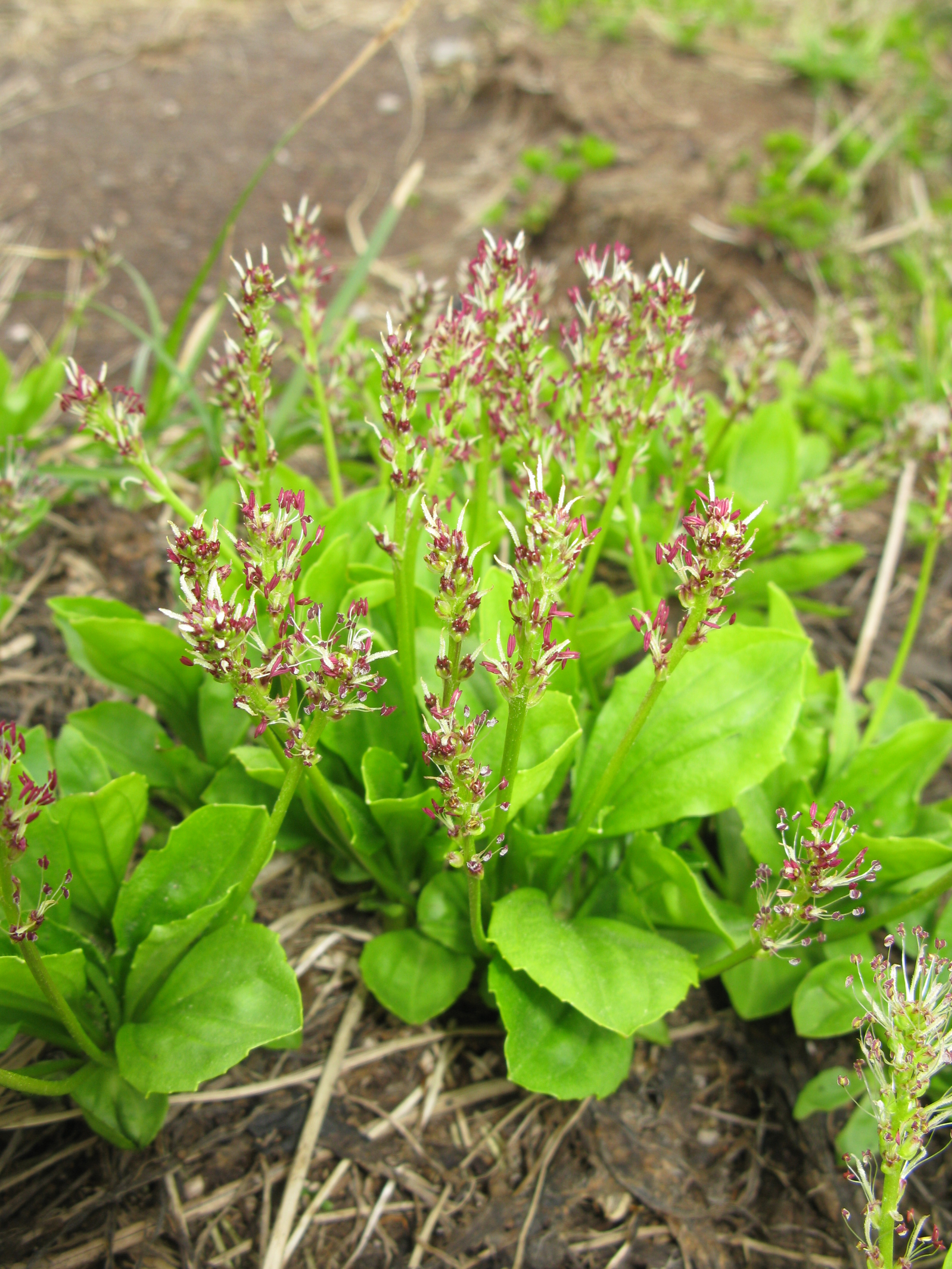 Plantago hakusanensis, Mount Gassan, Yamagata pref., Japan